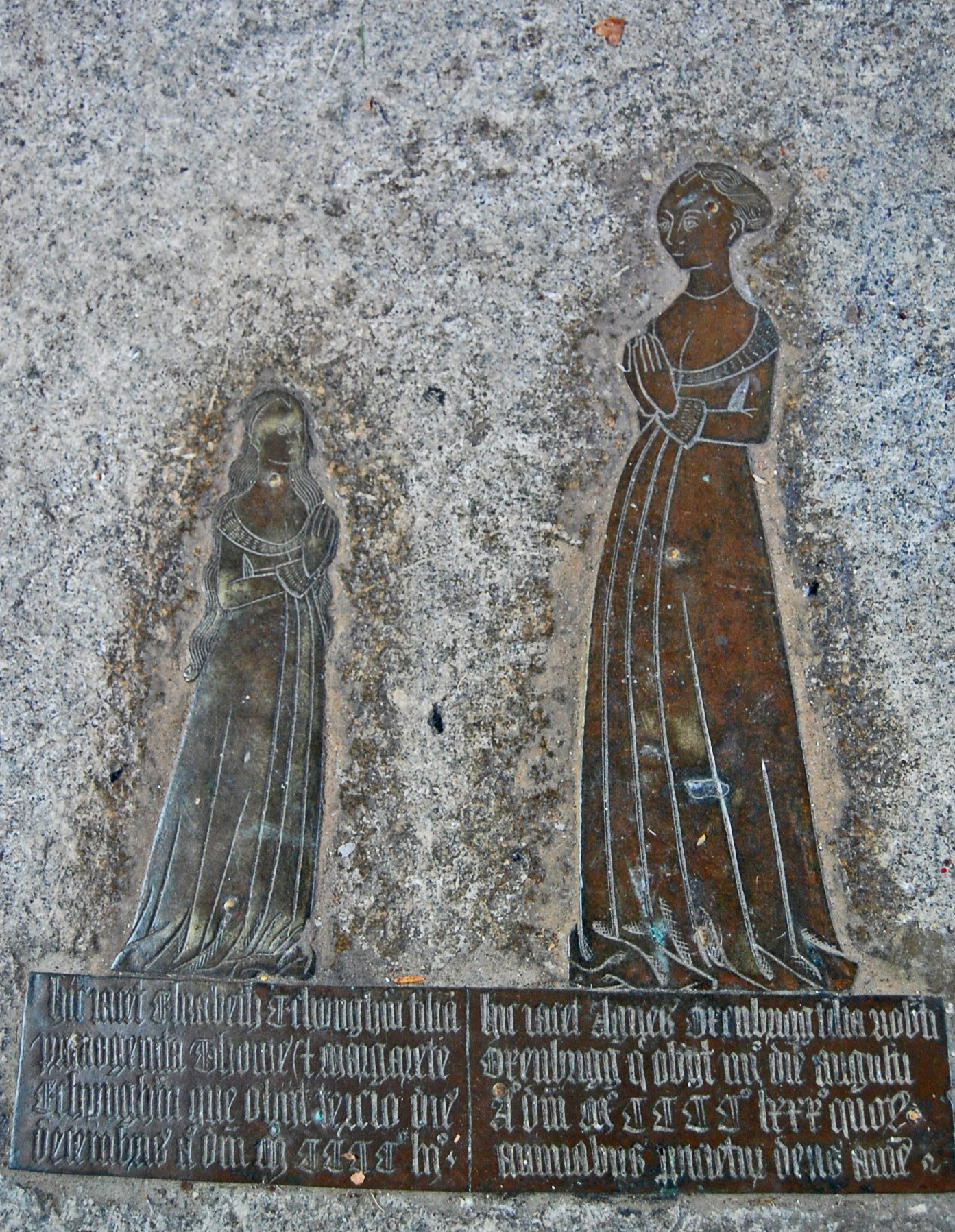 Brass of Elizabeth Etchingham and Agnes Oxenbrigg, Etchingham church Elizabeth (d.1452) was eldest daughter of Thomas and Margaret Etchingham. Agnes (d.1480) was daughter of Robert Oxenbrigg (Oxenbridge) from Brede. The brass is a palimpsest, originally to Thos. Austin (d.1405), re-use of brasses was common in those days.